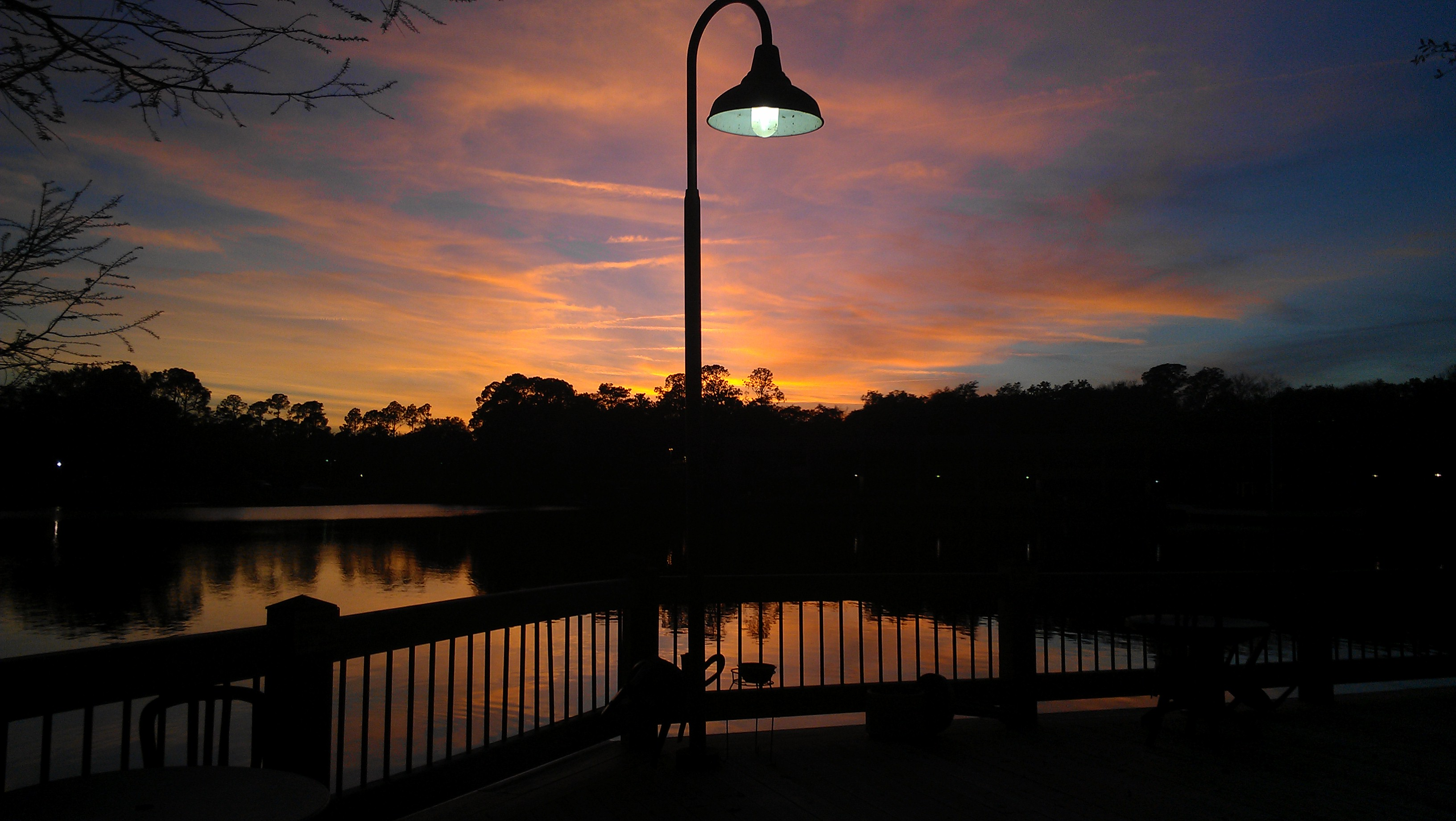 The sun setting on the lake behind Florida Coastal School of Law